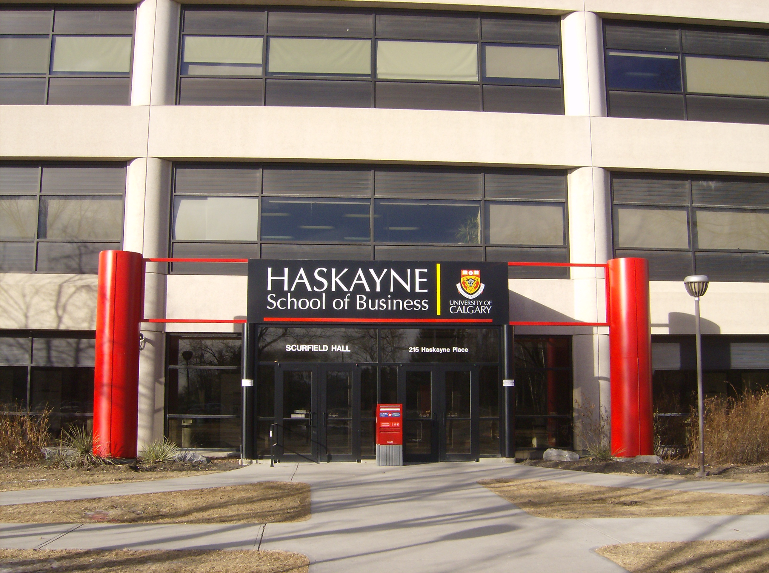 Haskayne School of Business, at the University of Calgary in Calgary, Alberta, Canada.